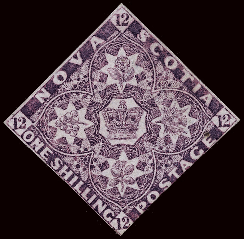 Nova Scotia stamp from 1851 has an E from the TH Saunders watermark on the reverse.